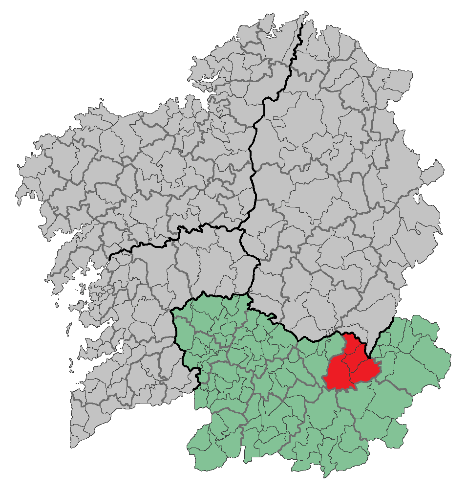 Region of Galicia (Spain) Based in: Image:Location of Betanzos.png Source: Designed by Leoplus. Original picture, designed by Caiser over a work made by Alyssalover.